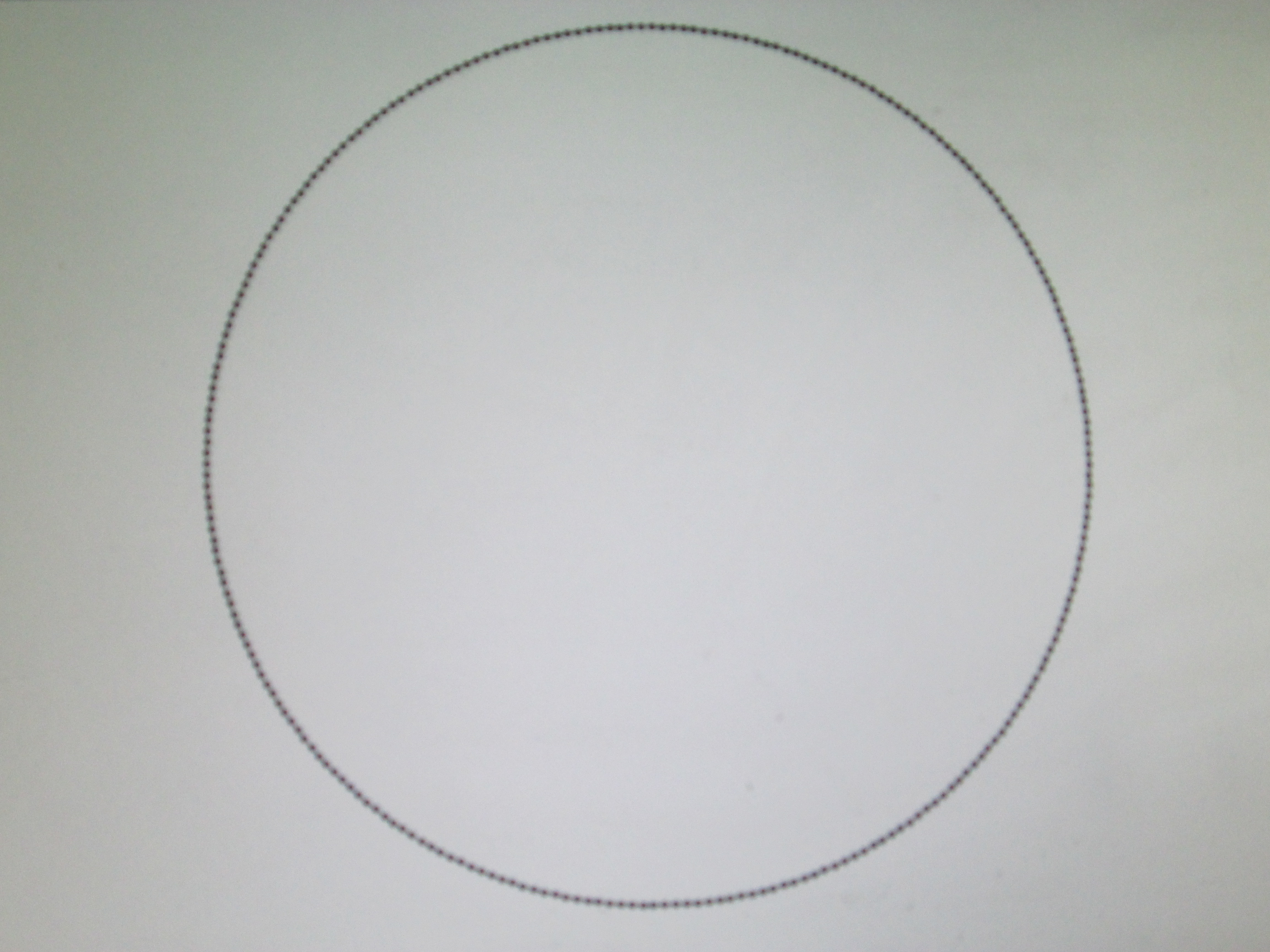 257-gon are not so indistinguishable from circle.